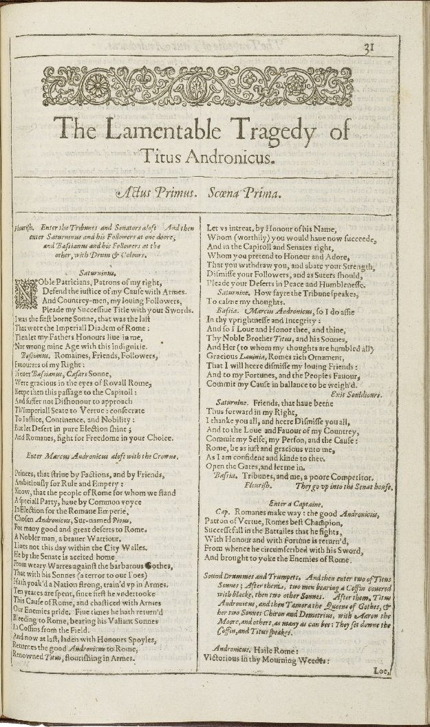 First page of Shakespeare's Titus Andronicus from the First Folio edition of 1623. Direct photograph of Folger Shakespeare Library STC 22273 Fo.1 no.68, fol. Cc4r